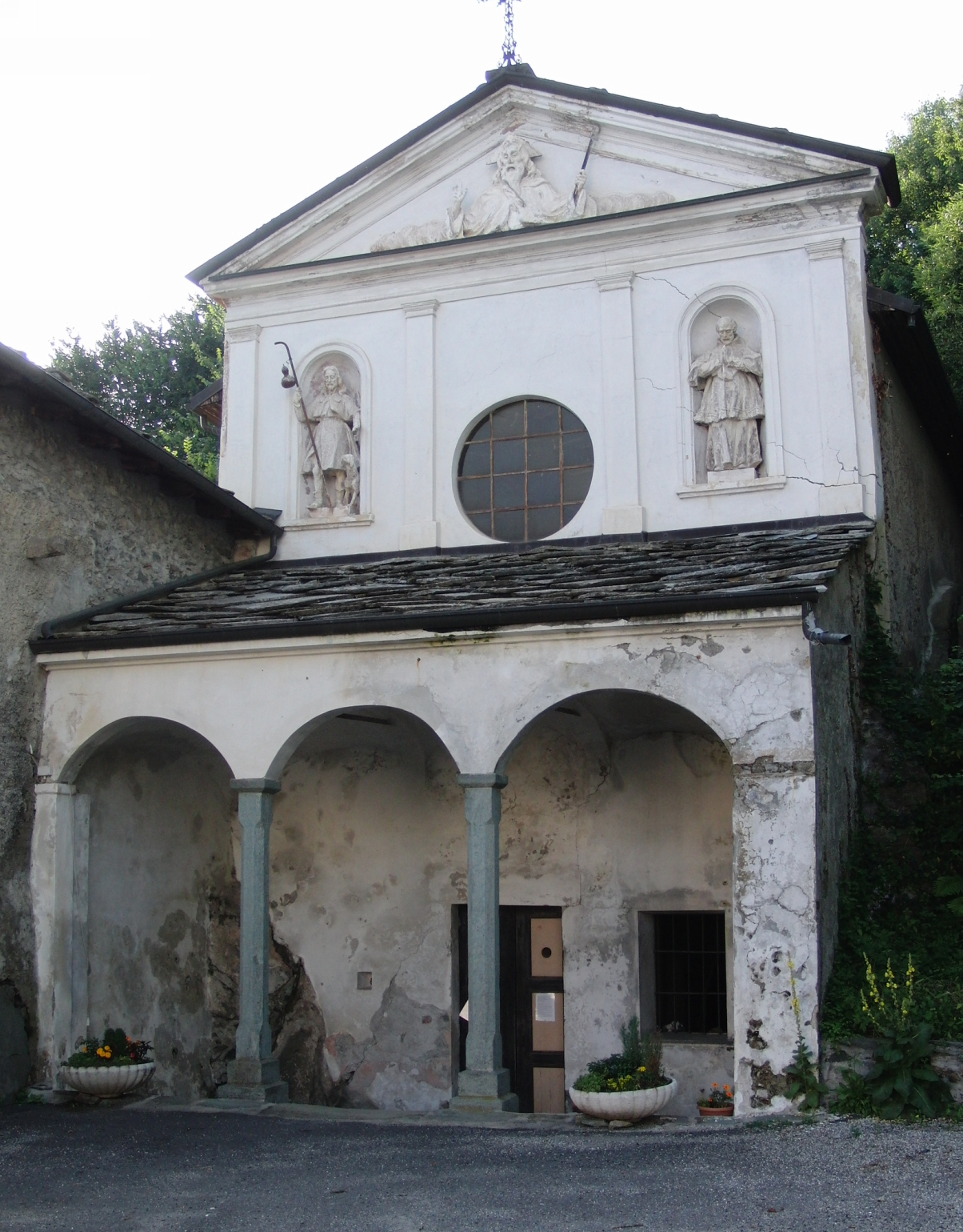 Cappella di San Giovanni Vincenzo - Celle di Caprie (Torino) Italy